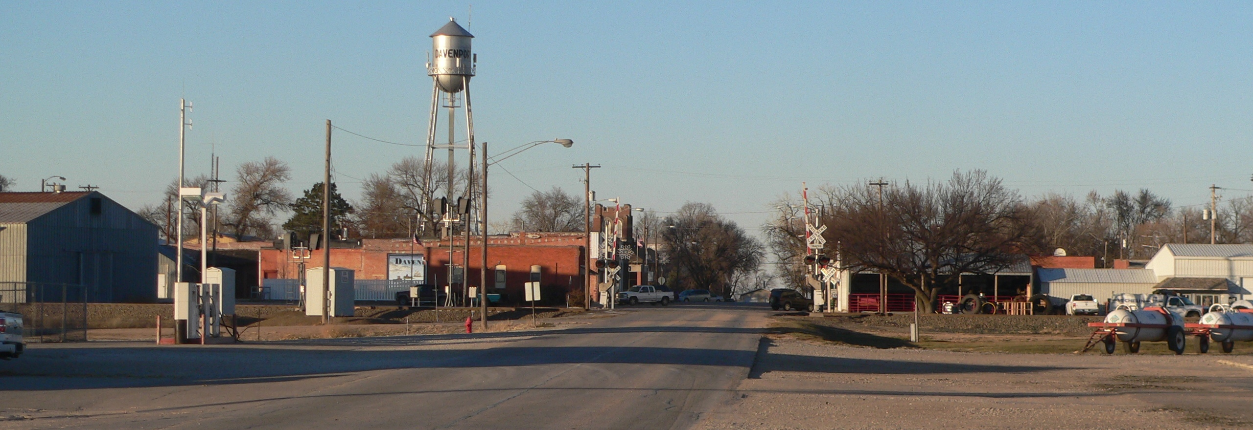 Downtown Davenport, Nebraska: camera is facing north along Maple Avenue.